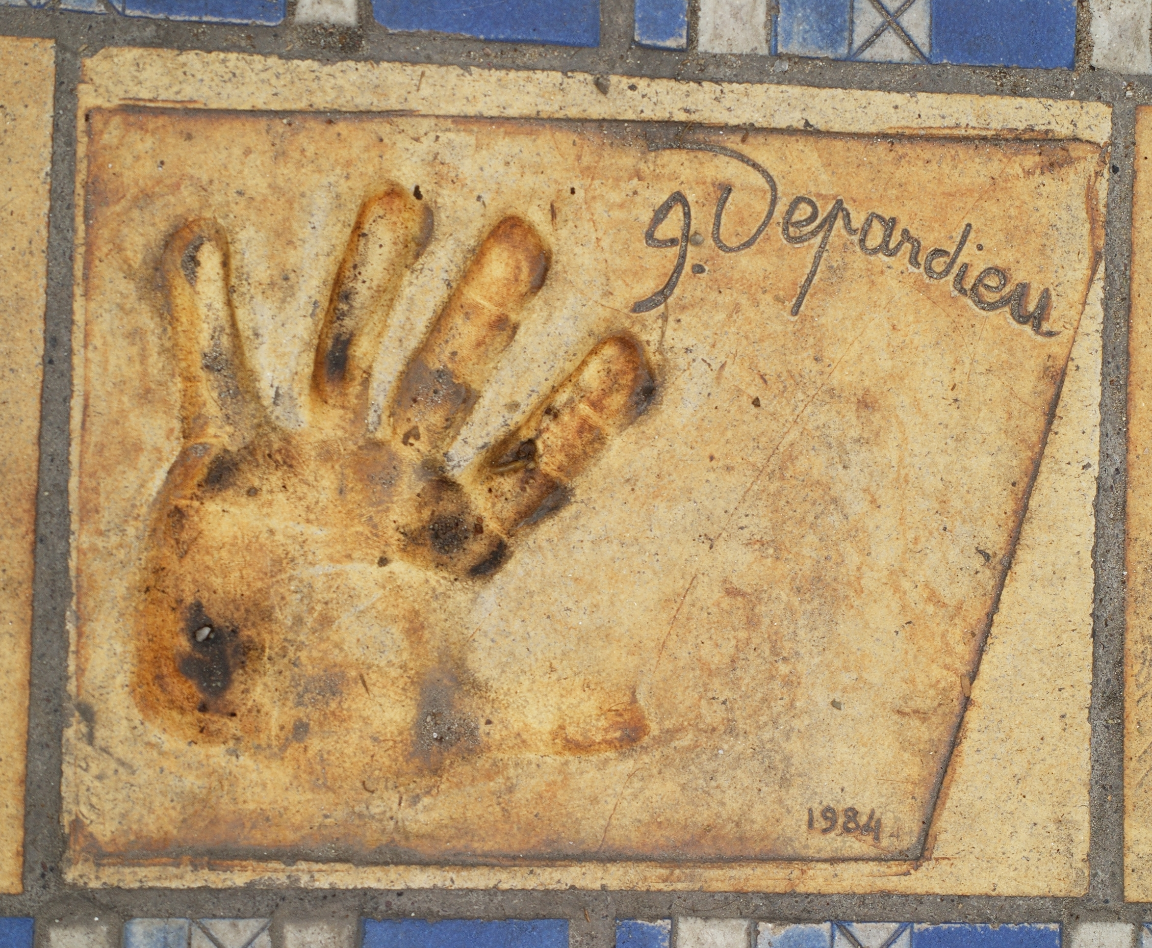 Handprint and autograph of Gérard Depardieu on the walkway in front of the Palais des Festivals et des Congrès in Cannes.